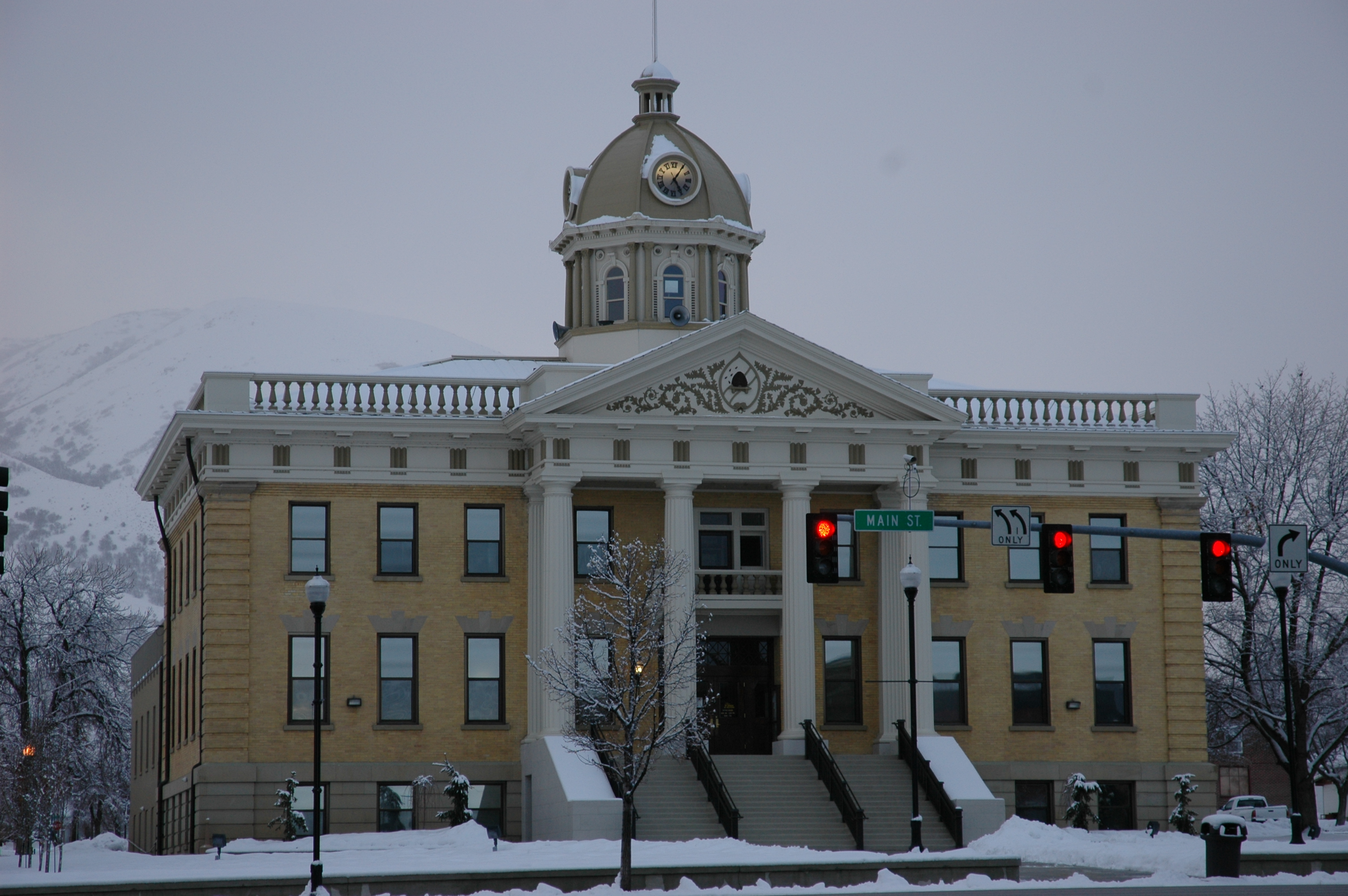 The Box Elder County Courthouse, a historic building in Brigham City, Utah, United States.